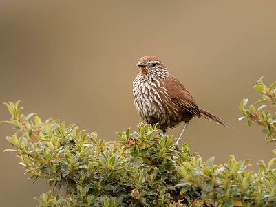 Line-fronted Canastero; Bosque Unchog, Huanuco, Peru